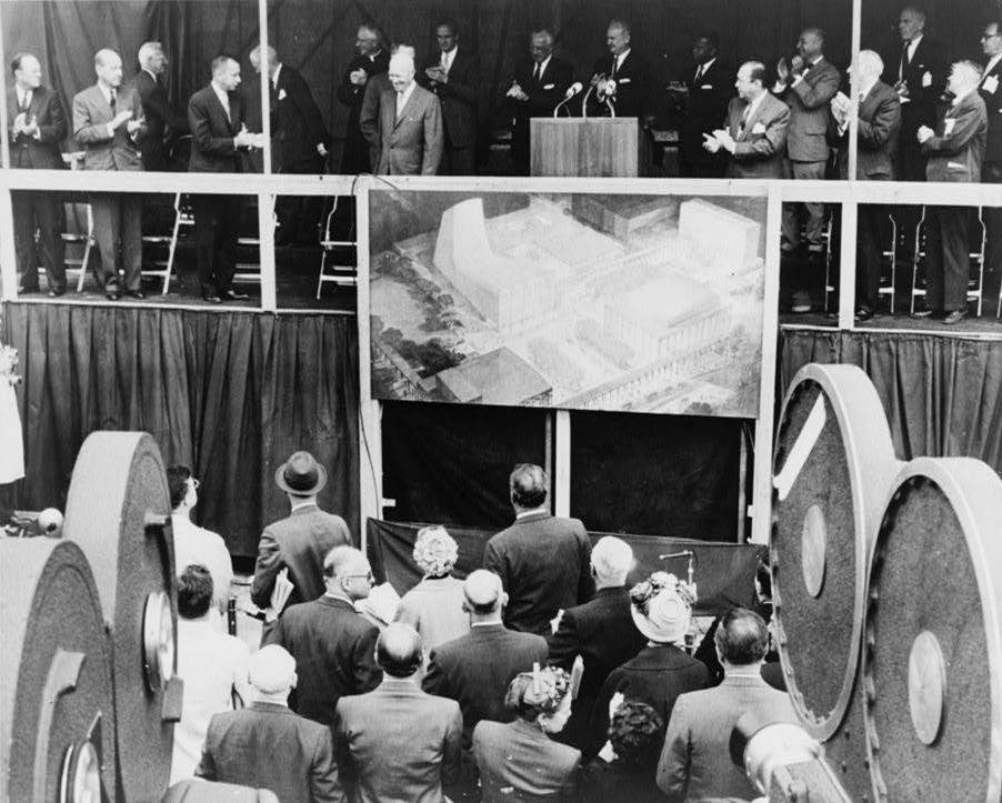 President Eisenhower in front of audience, picture of proposed Lincoln Center in foreground.